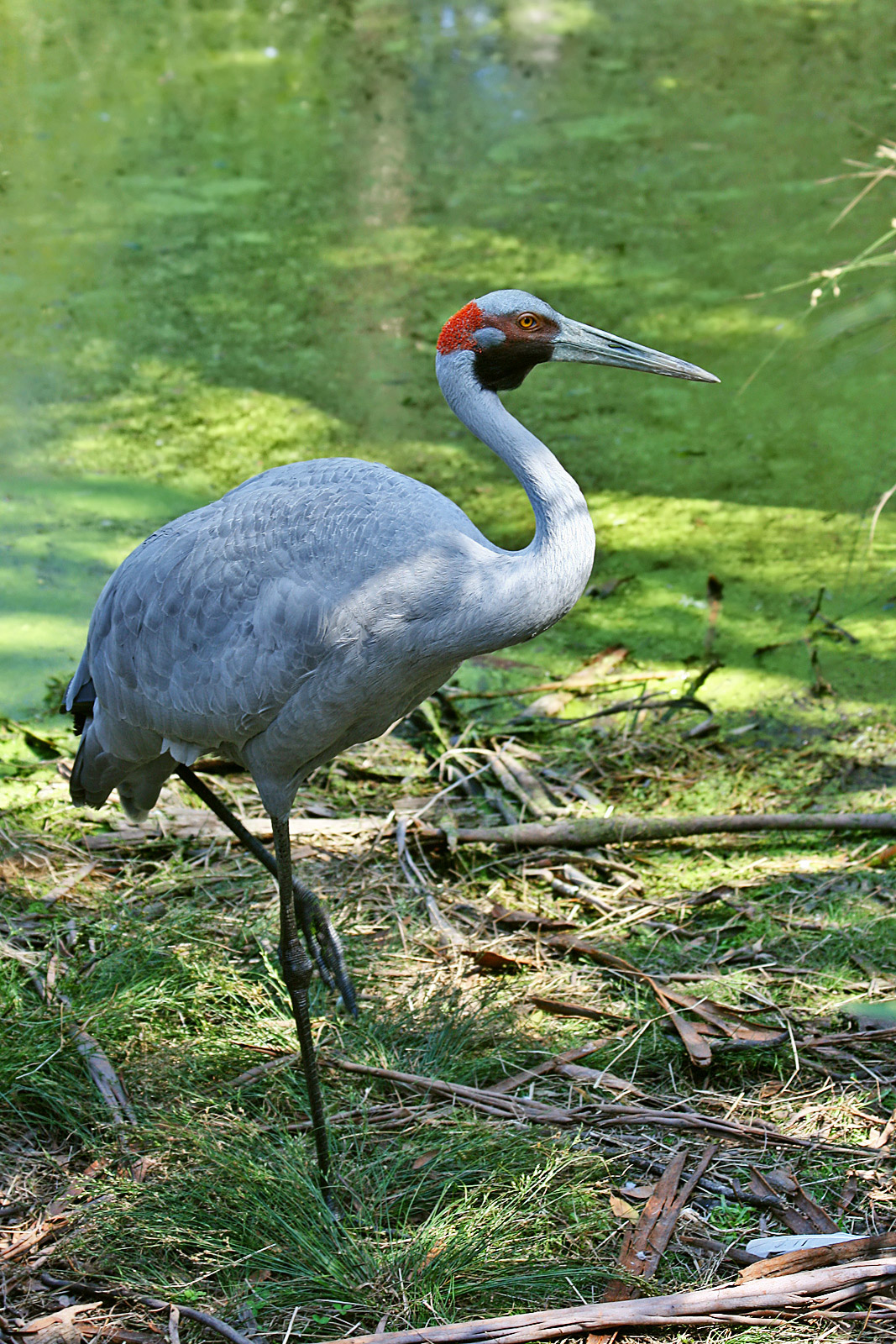 Brolga (Grus rubicunda) at Healesville, Victoria, Australia.